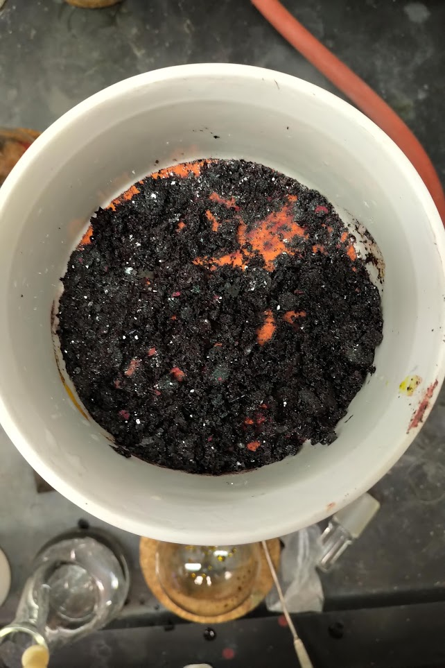 This picture is showing the compound MOED otherwise referred to as Brooker's merocyanine. The crystals are in a Buchner funnel for vaccum filtration.